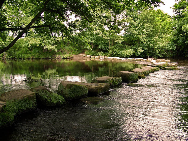 Stepping stones over the River Derwent.